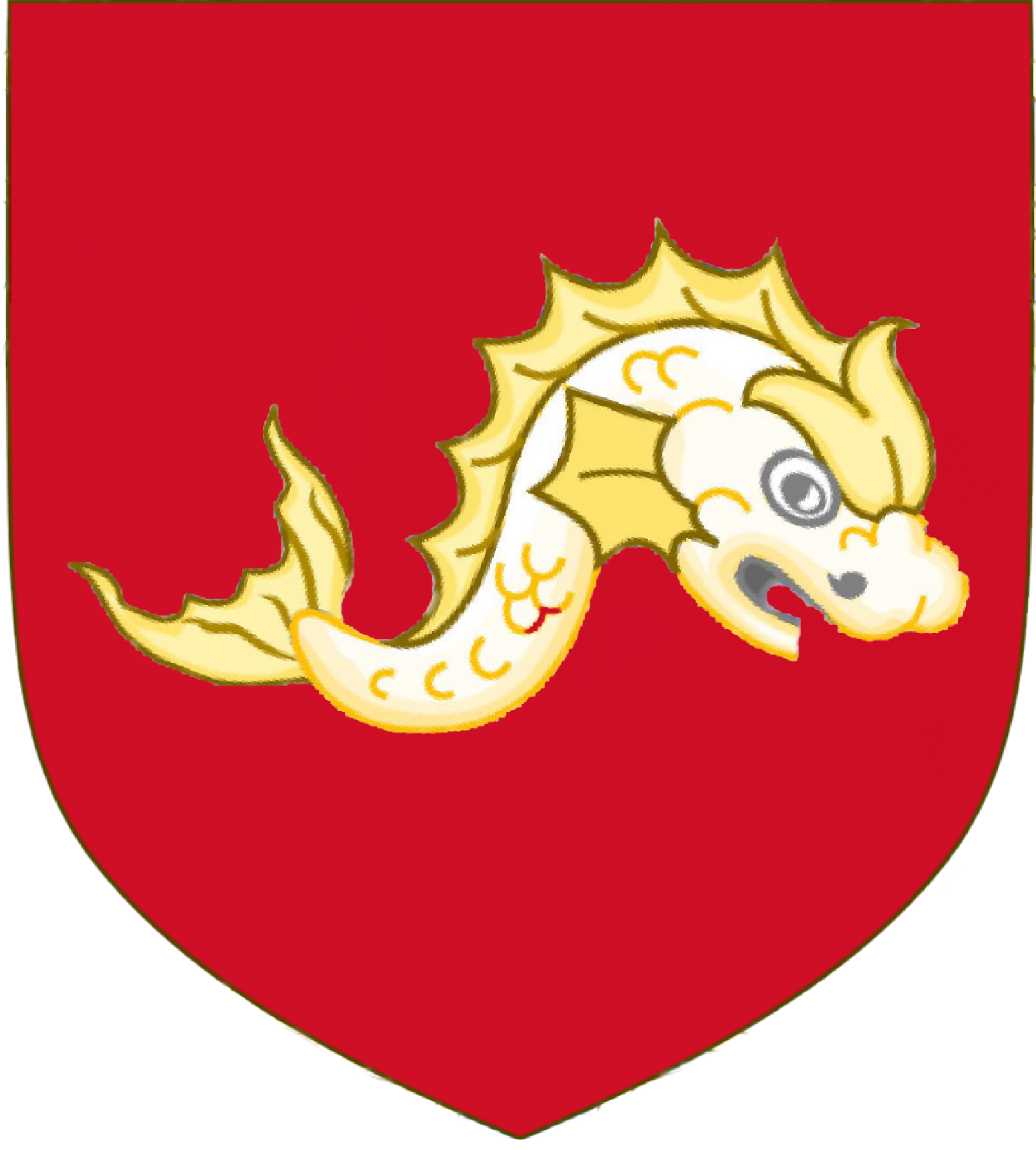 Arms of James family, Baron Northbourne. Image of dolphin taken from Wikipedia public content.